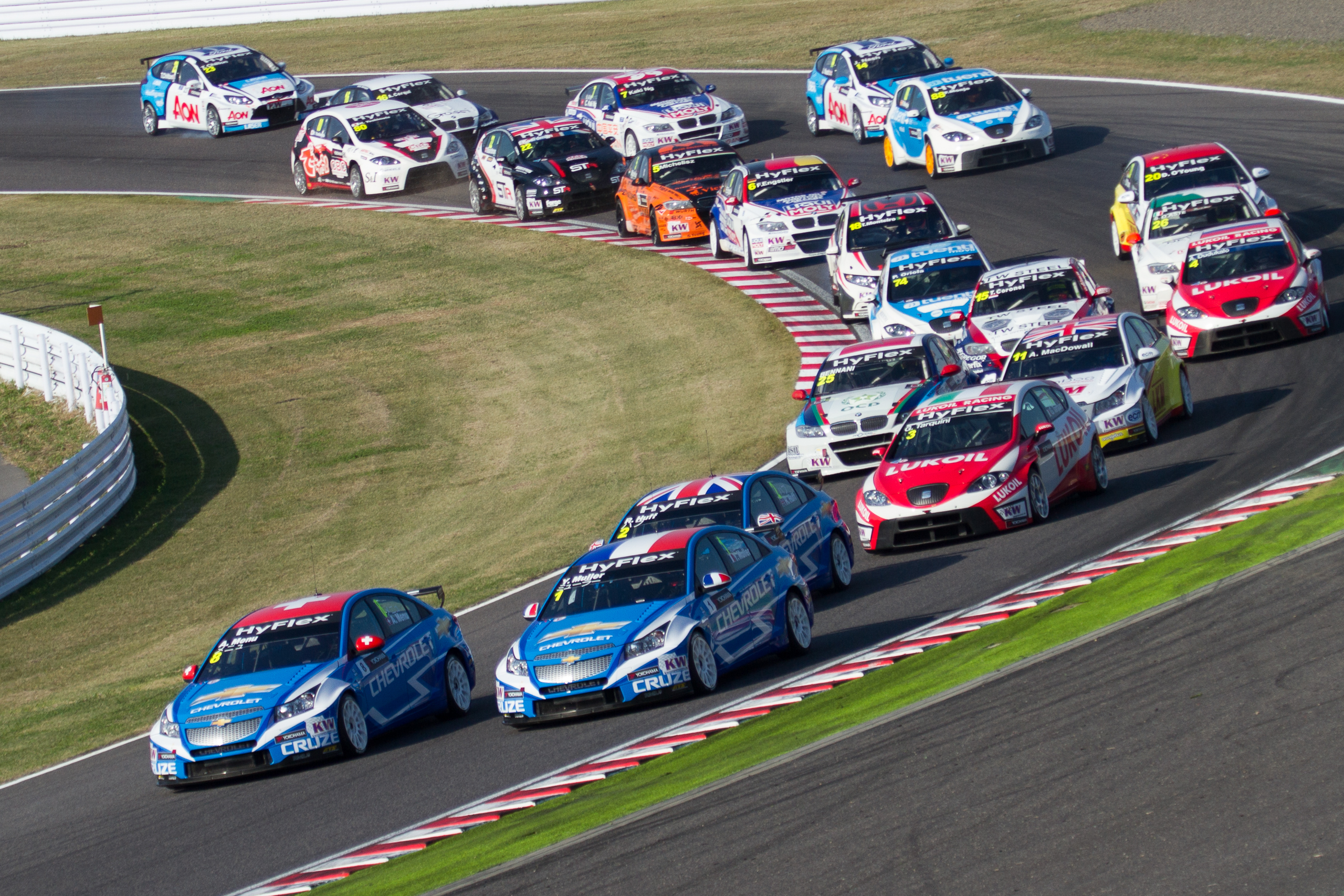 World Touring Car Championship 2012 Race of Japan: Opening lap of Race 1.